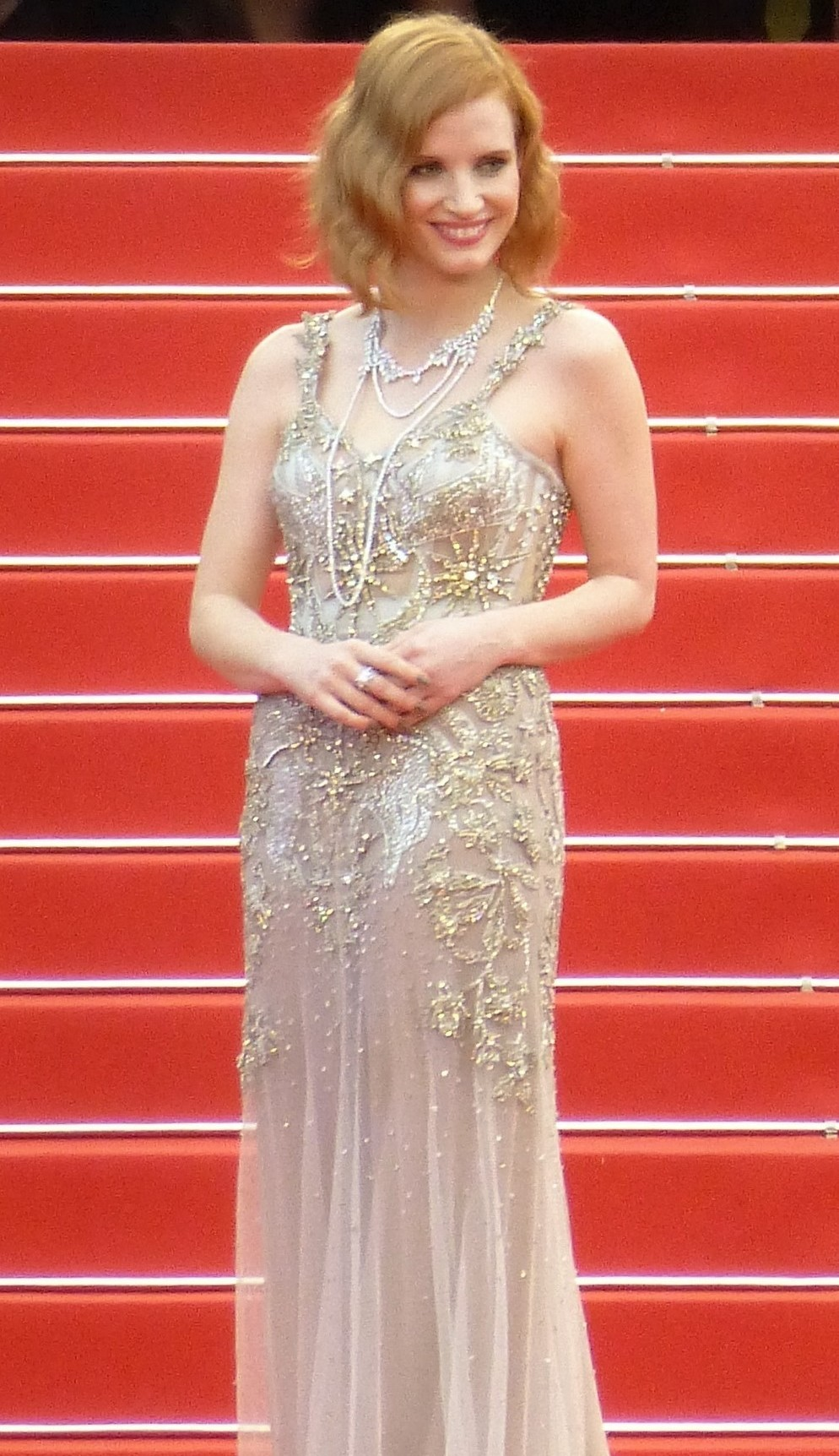 Jessica Chastain at the world premiere of Money Monster, 2016 Cannes Film Festival